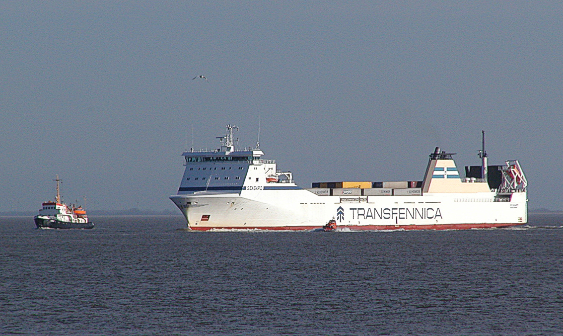 Seagard Schiffstyp: STO-RO Paper and Trailer Vessel